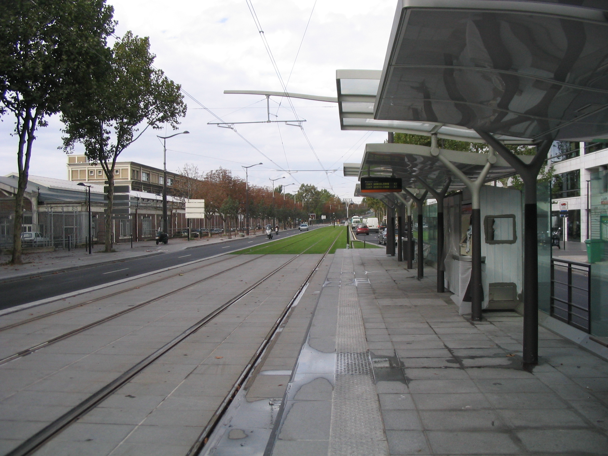 Tramway T3 à Paris, station Balard.